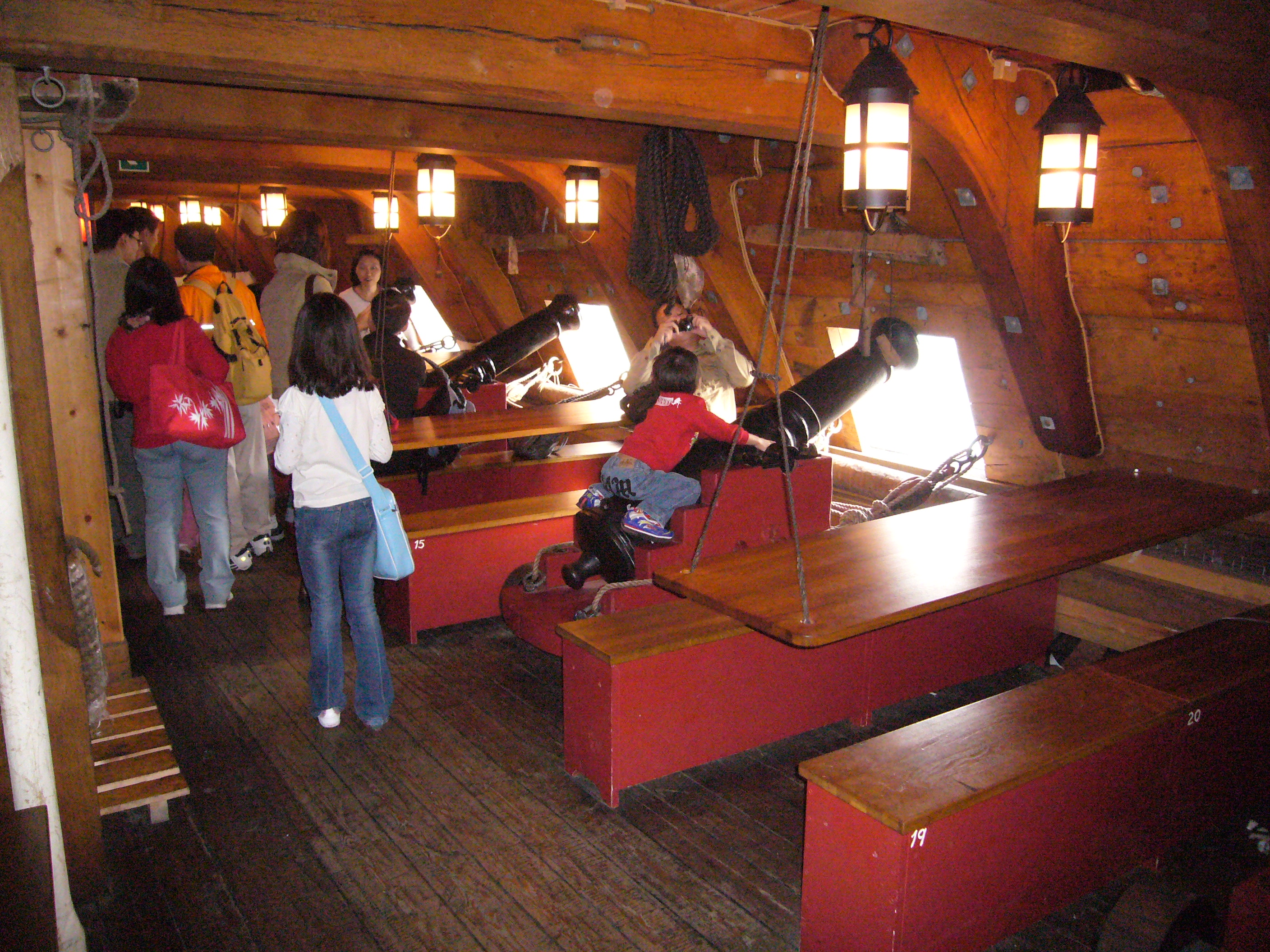 哥德堡號，Ship Götheborg